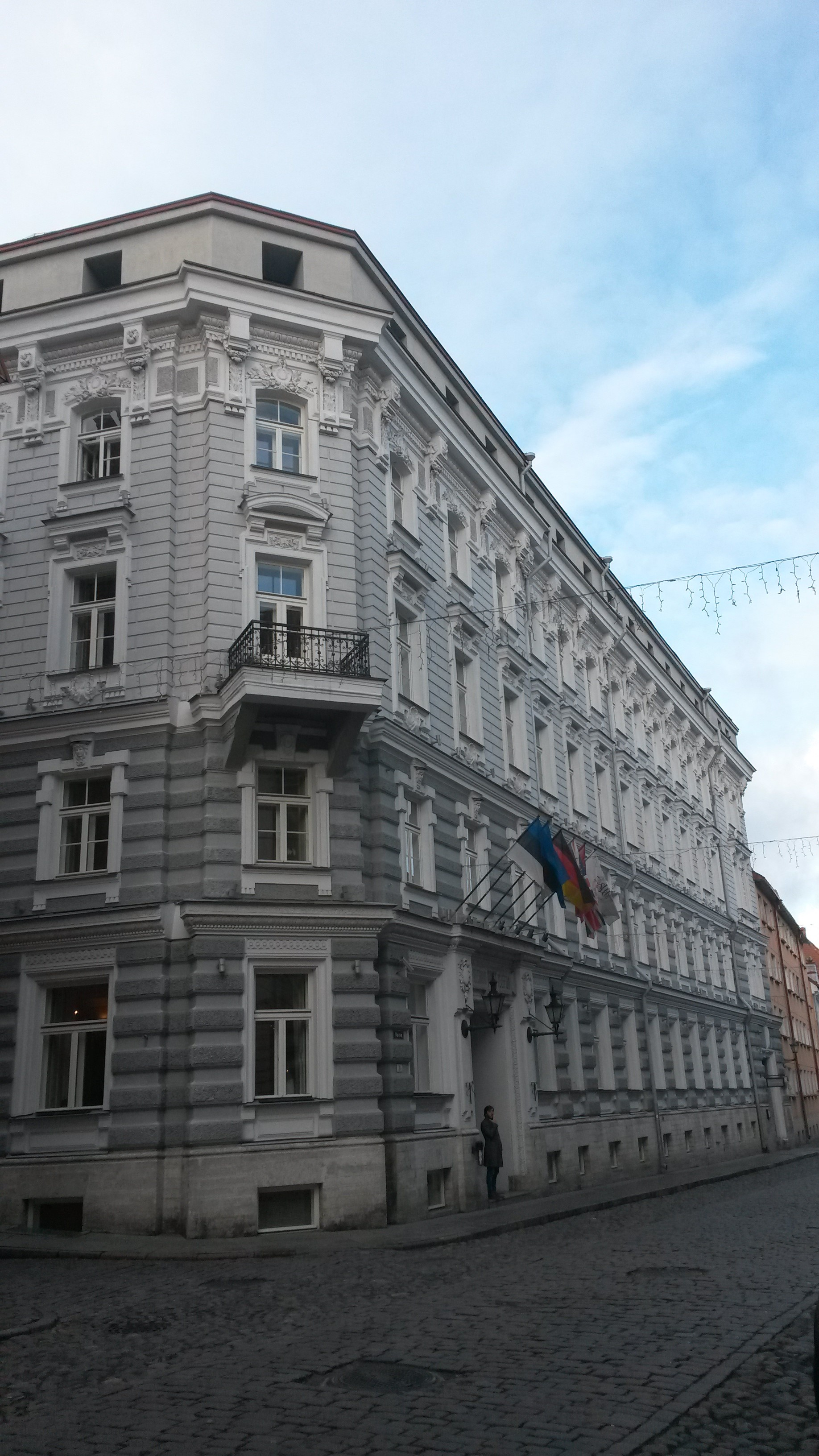 Building Vene str 9, Tallinn